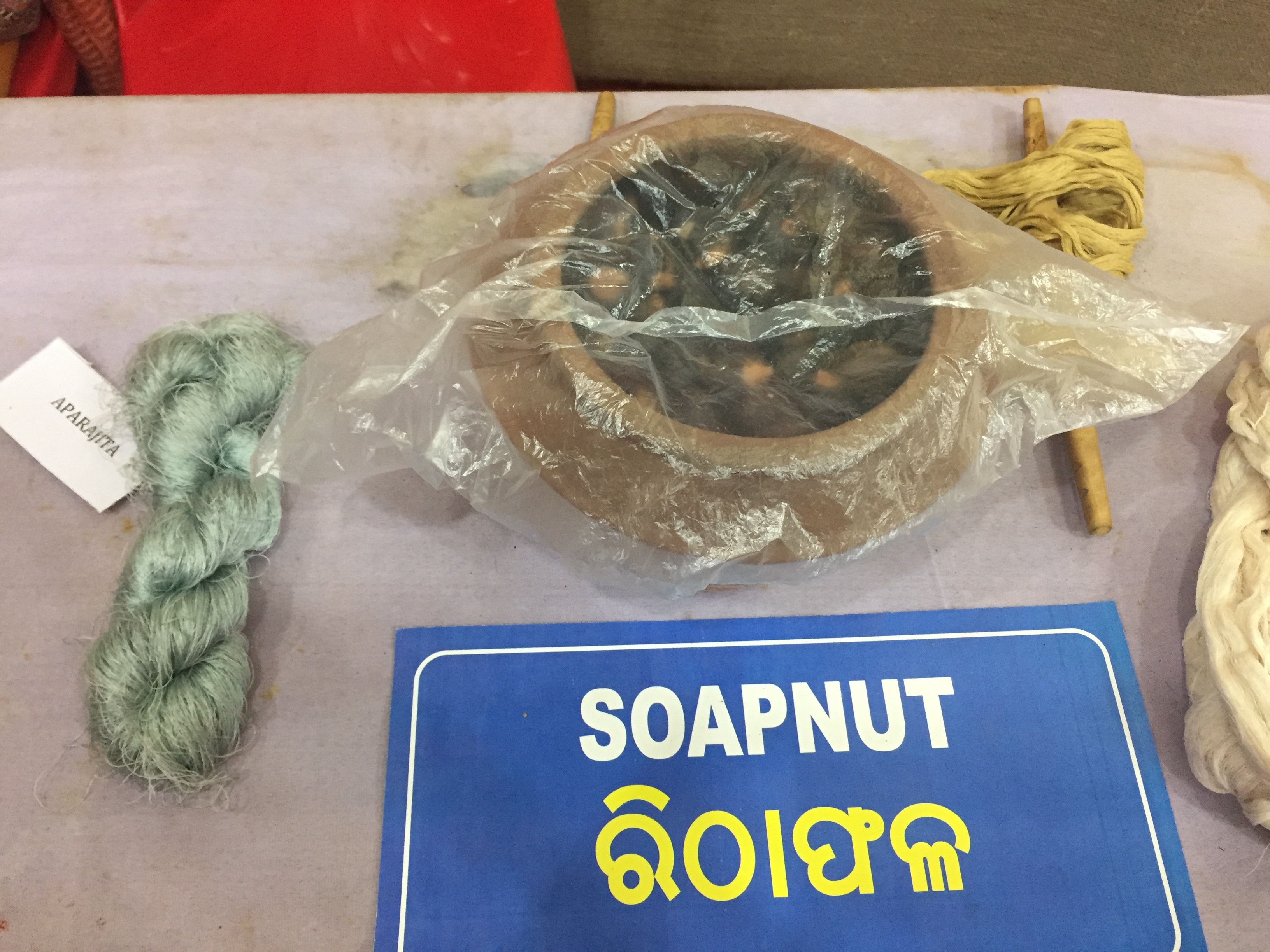 Using natural dyes to color the yarn of Tasar silk.